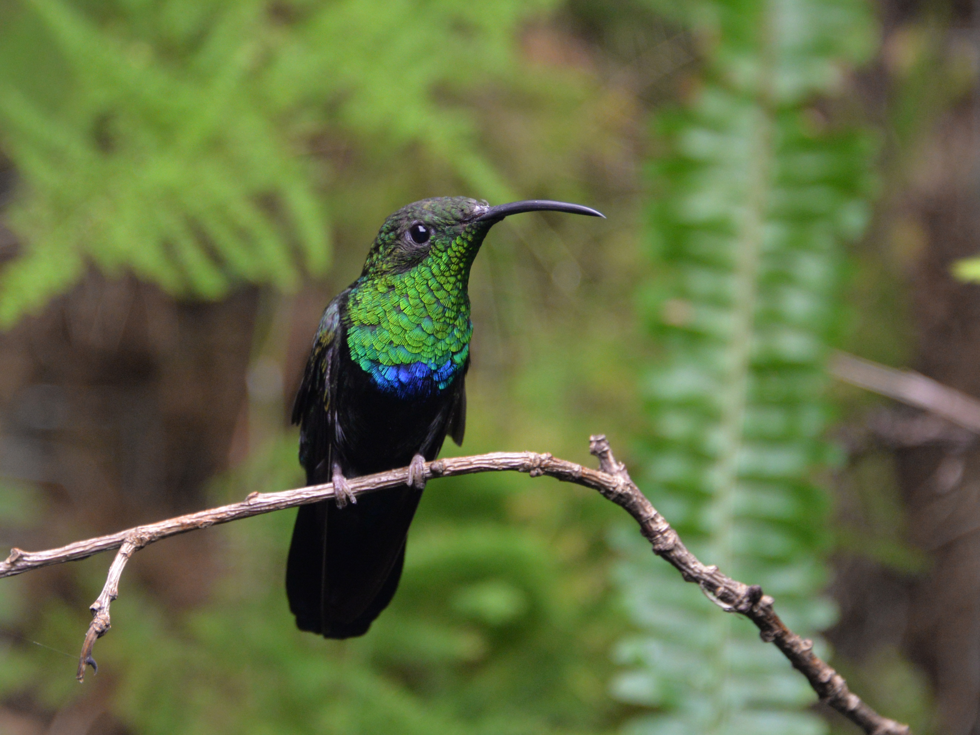 Green-throated carib (Eulampis holosericeus)